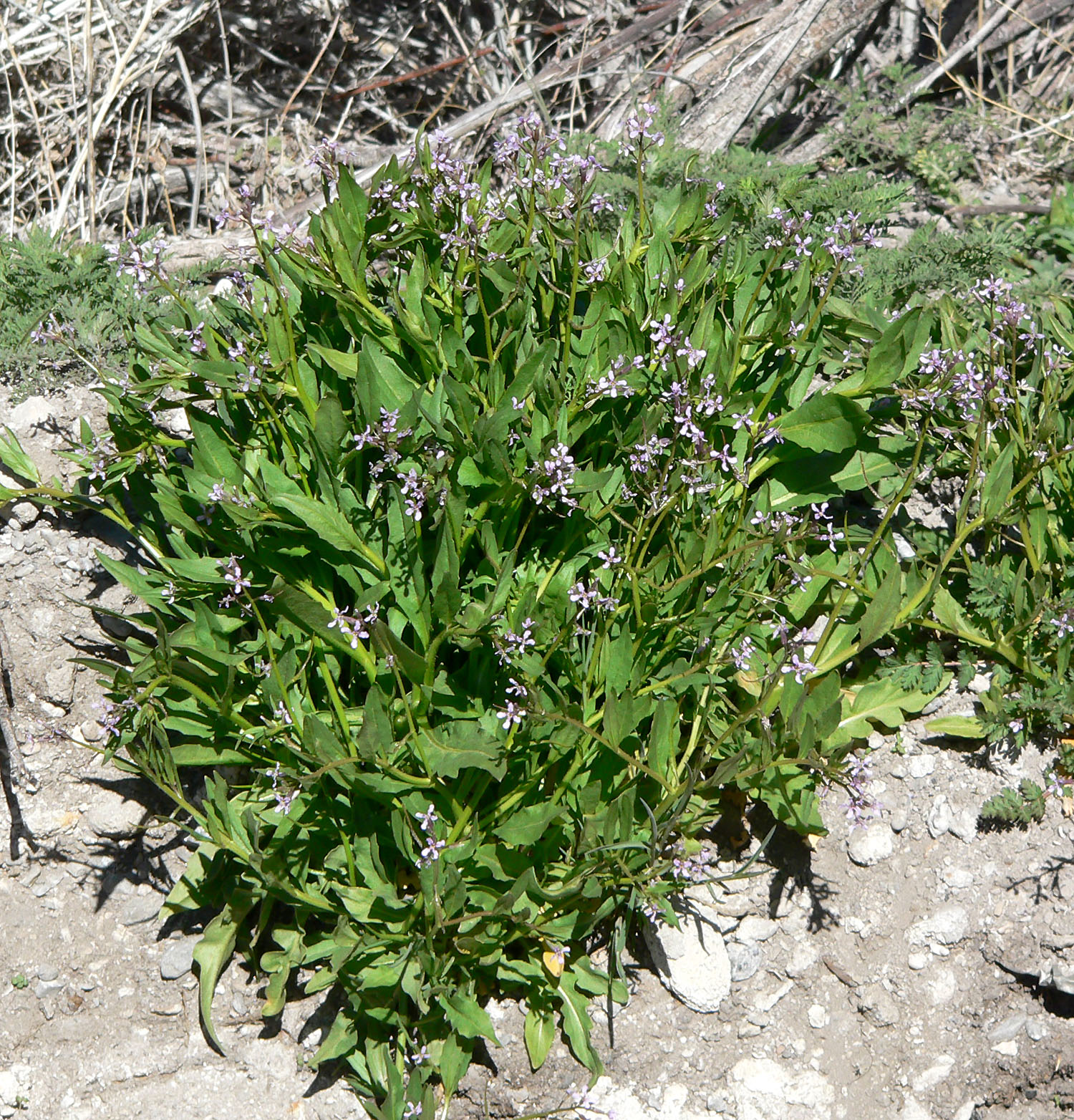 Chorispora tenella at Willow Spring of Willow Creek, Cold Creek area, Spring Mountains, southern Nevada (elev. about 1800 m)